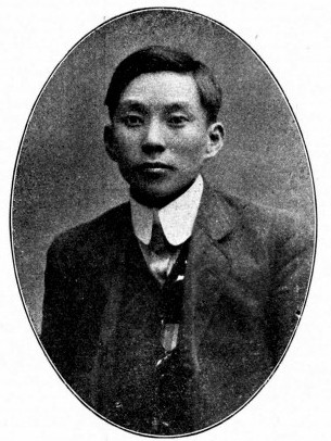 Tian Tong (1879－1930)